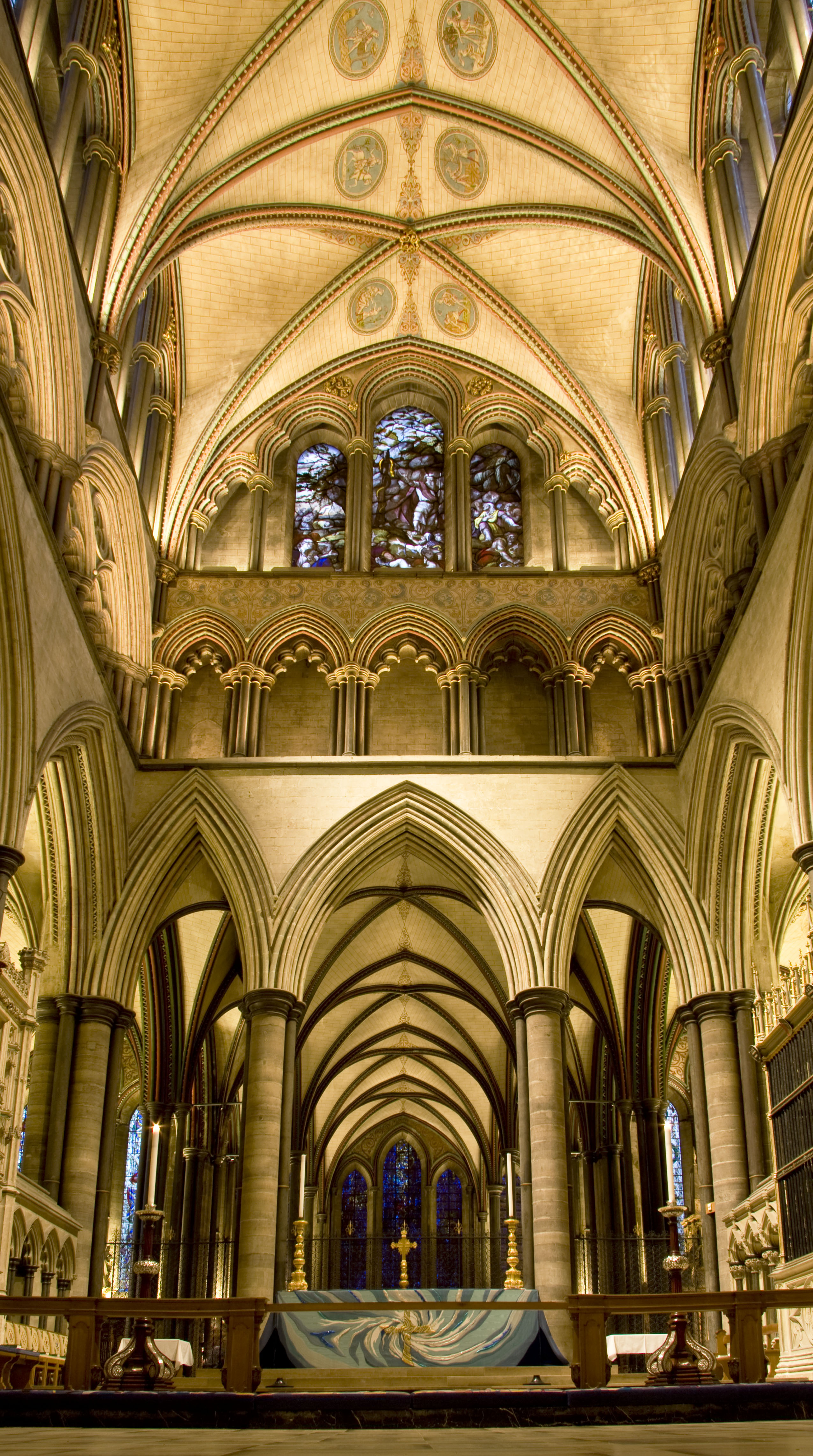 Choir facing east